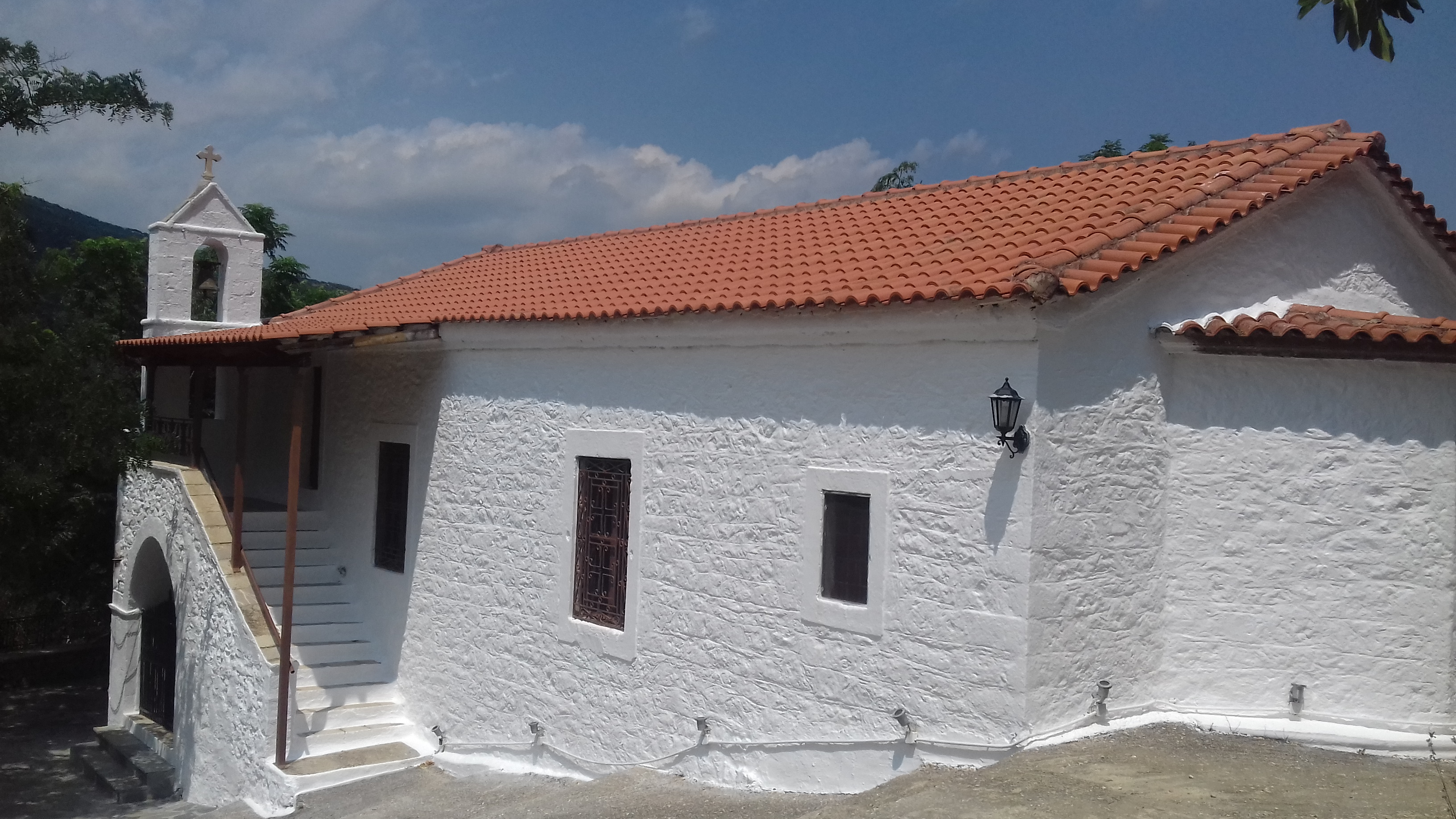 Church of Agios Dimitrios, Oreino Korakovouni village, Arcadia Greece